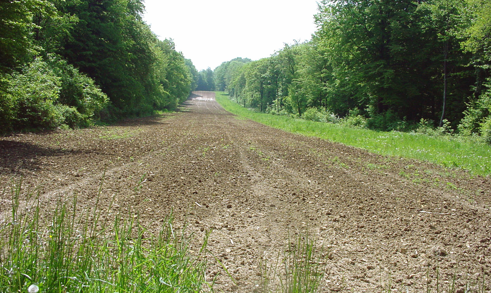 Forest hunting culture in Verdun's forest (Meuse, France), in former "red zone" defined after the First World War.